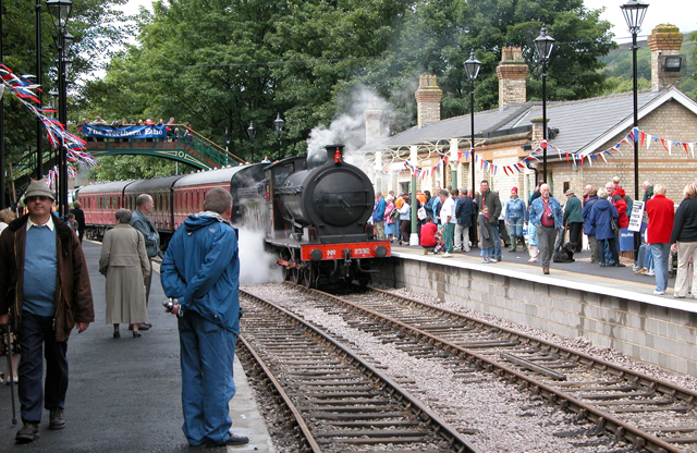 Stanhope Station on the Category:Weardale Railway